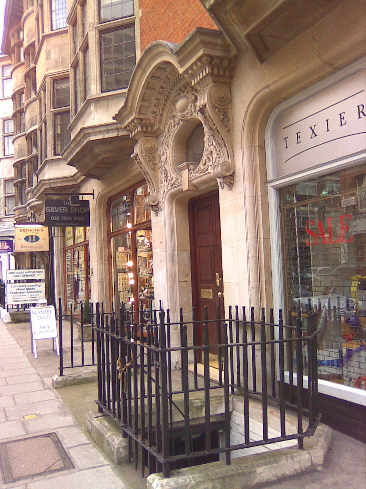 The basement near 5 New Cavendish Street, London, UK, which was the subject of the English contract law case City and Westminster Properties (1934) Ltd v Mudd.